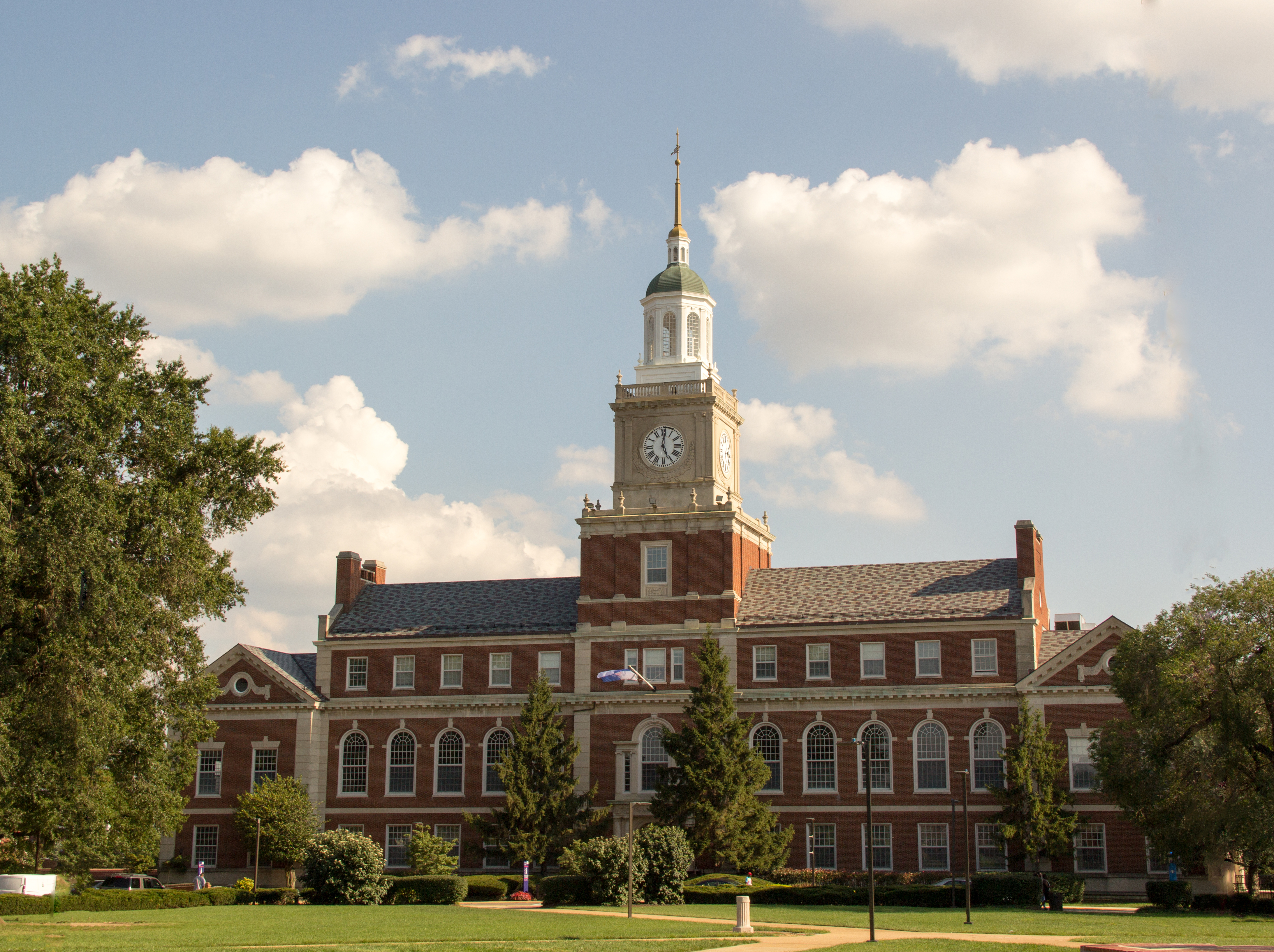 Howard University’s most durable and forceful monument, dedicated in 1939, and designed by architect Albert I. Cassell FAIA.